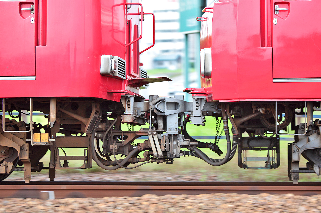 Nagoya Railroad's original equipment, M-Shiki (Meitetsu-Shiki) automatic electric and air couplers of 6000 series EMU (left - Type Mo 6200, right - Type Ku 6000).